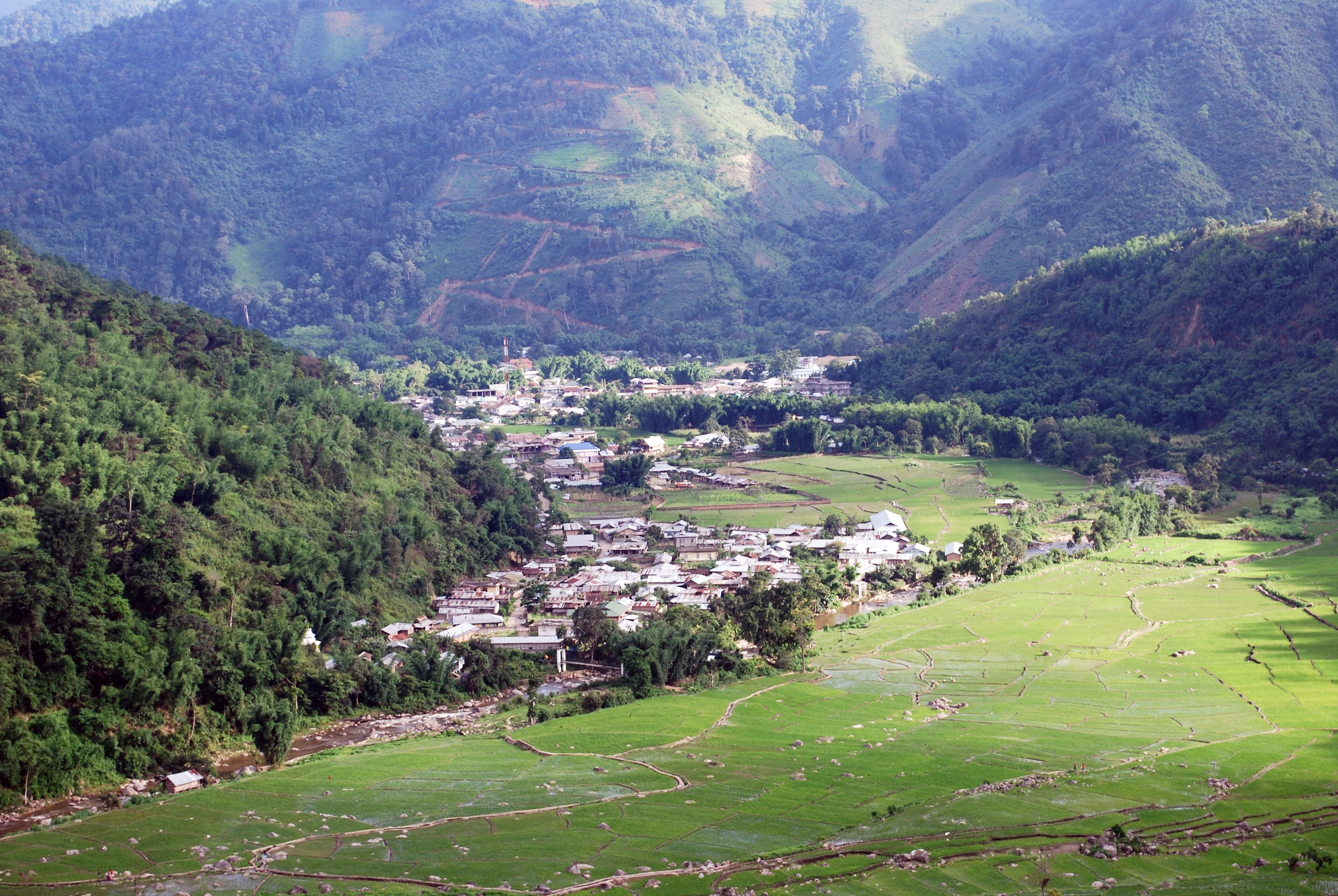 Yachuli, a small town in Lower Subansiri district of Arunachal Pradesh. A panoramic view from top.